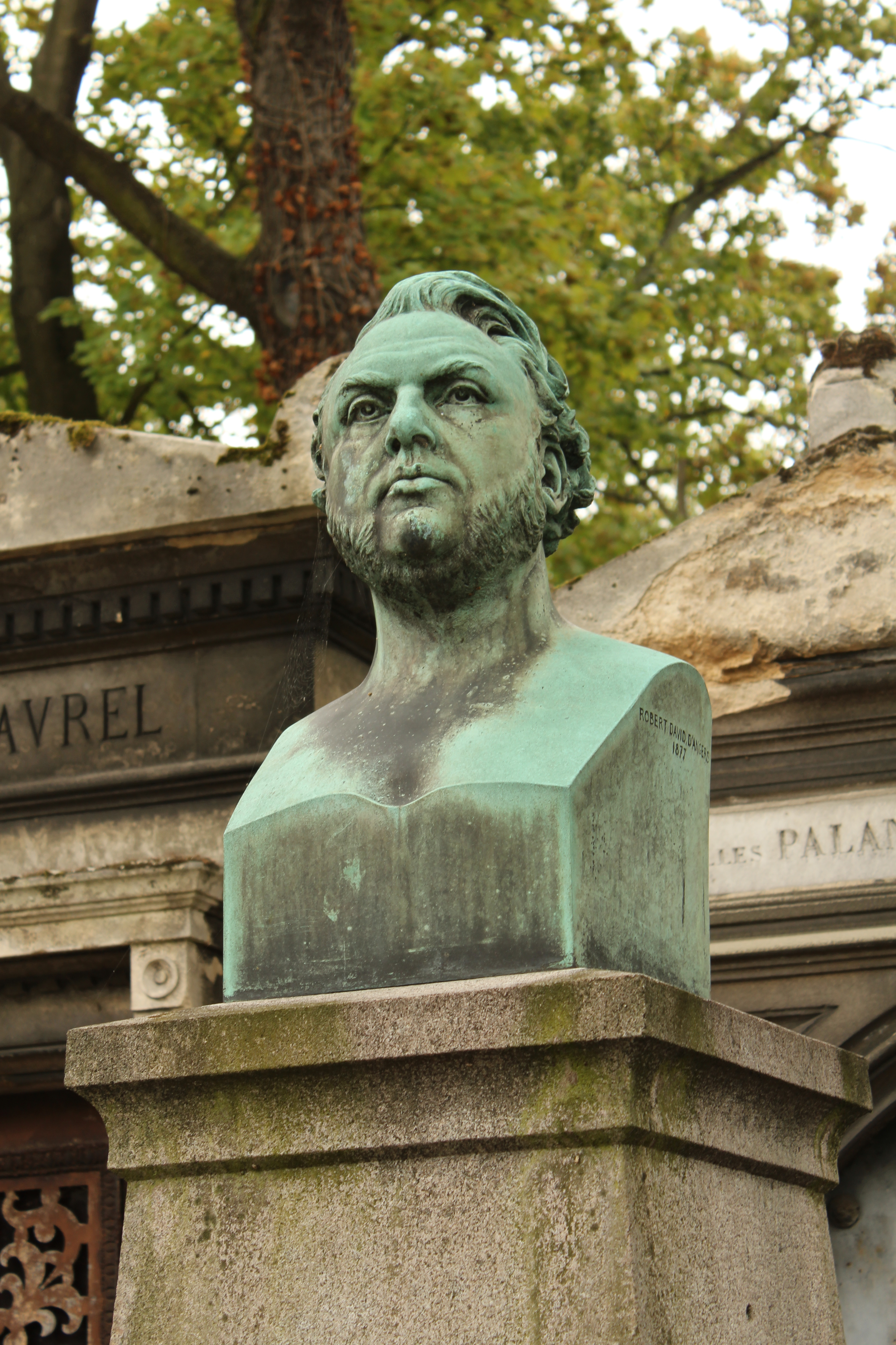 Stone surmounted by a bronze Herma.